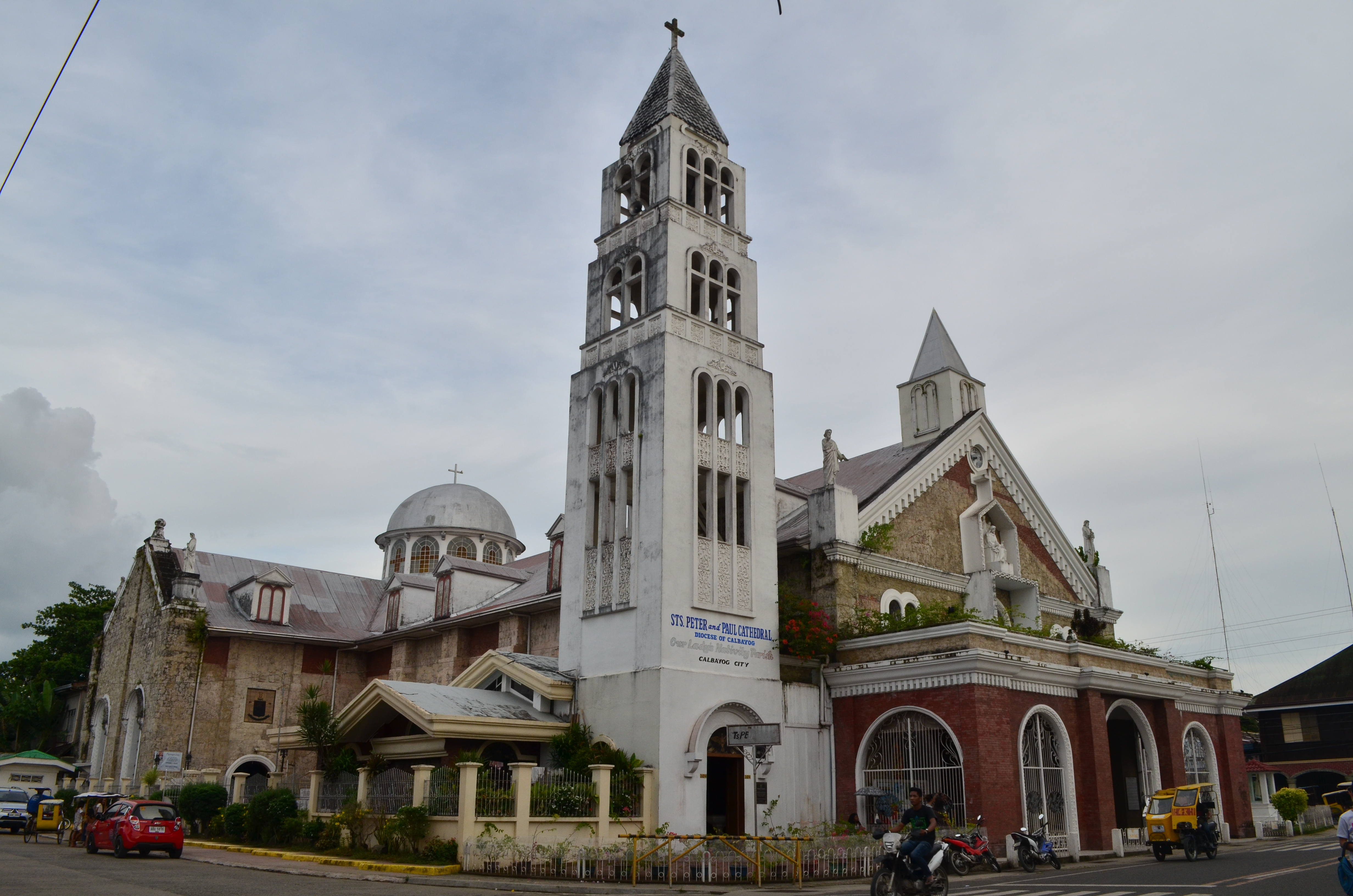 Saints Peter and Paul Cathedral located in the Our Lady's Nativity Parish in the Diocese of Calbayog in Calbayog City, Samar, Philippines. Picture was taken on 09 May 2017